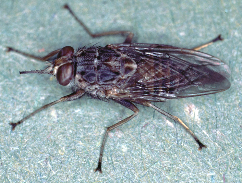 Photograph of a parasitic insect of domestic animals